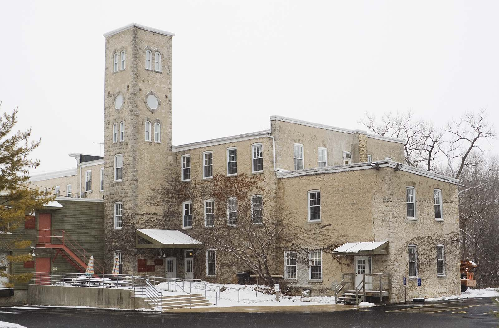 Cedarburg Woolen Co. Worsted Mill, Registered Historic Place in Grafton, Wisconsin. South end of mill.